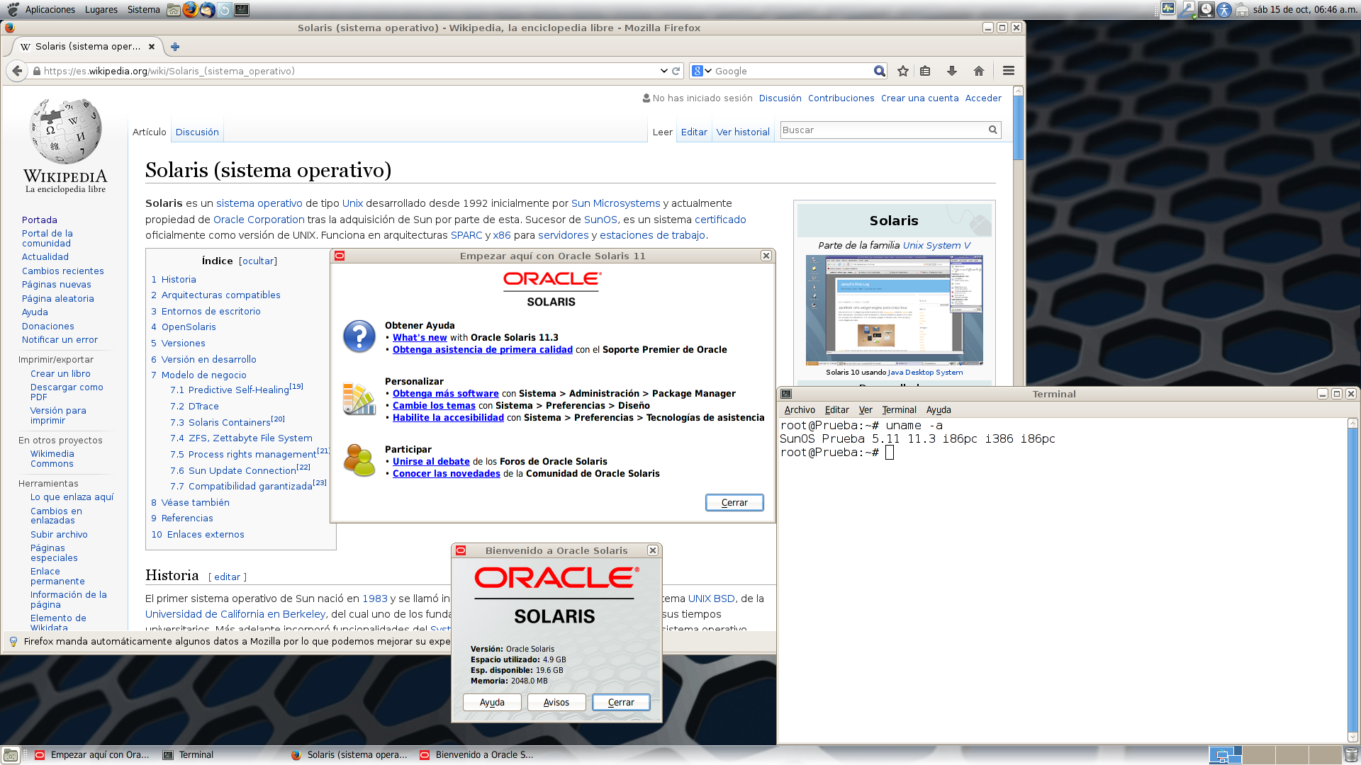 Screenshot of Oracle Solaris 11 running GNOME2, GNOME Terminal, and Mozilla Firefox (Oracle's «Start here» window contains the GNOME2 stock icons, and the Wikipedia page is displaying Java Desktop System).